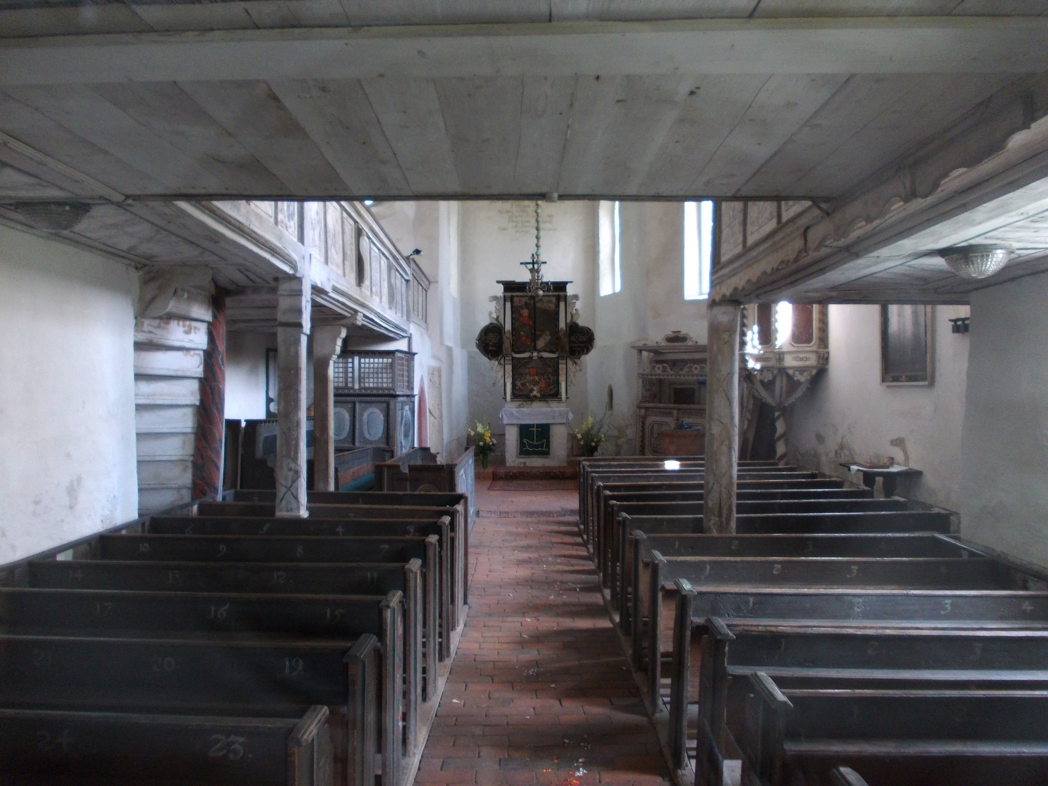 Interior of Höfgen church (Grimma, Leipzig district, Saxony)